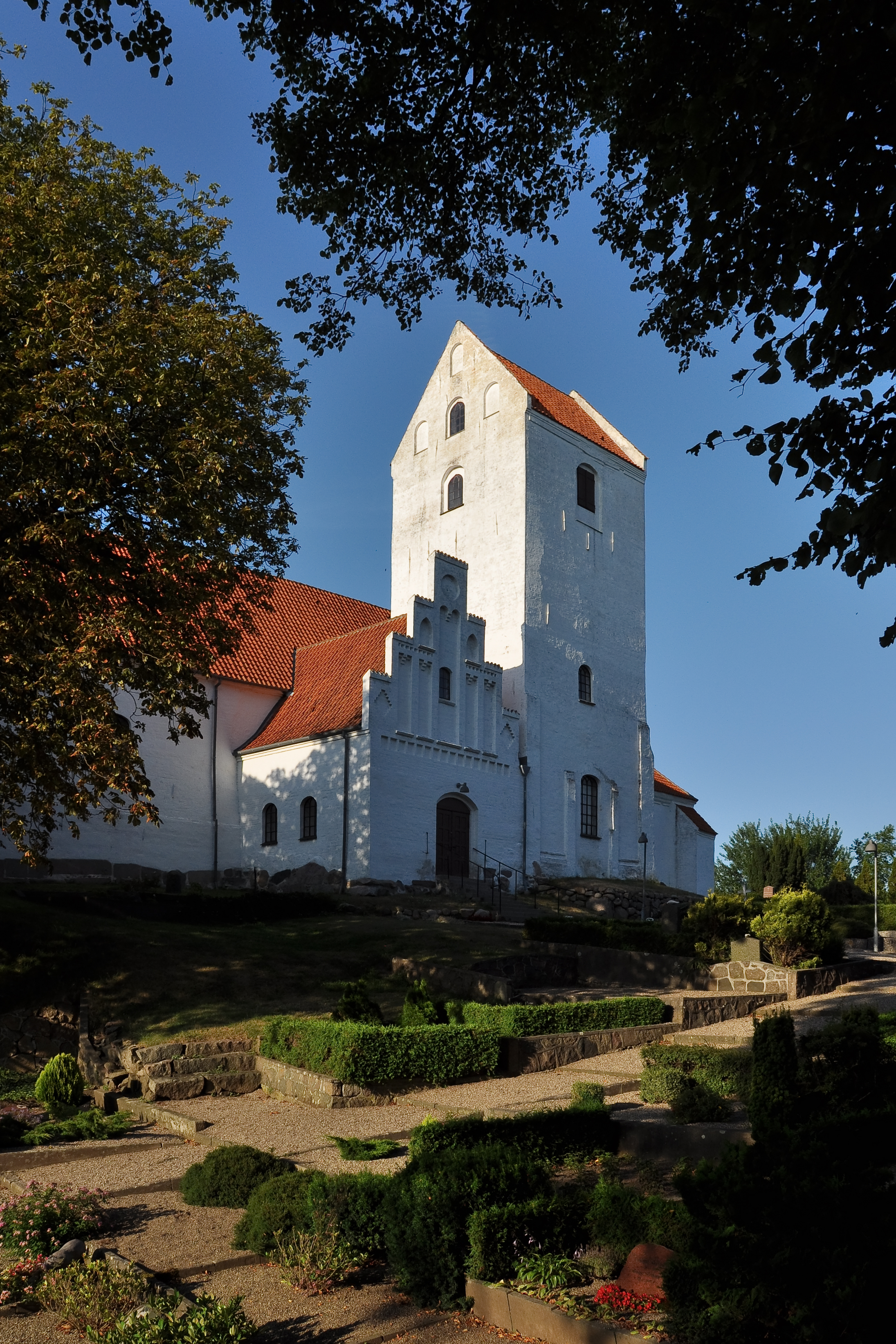 Humble Church in Langeland Municipality, Denmark.